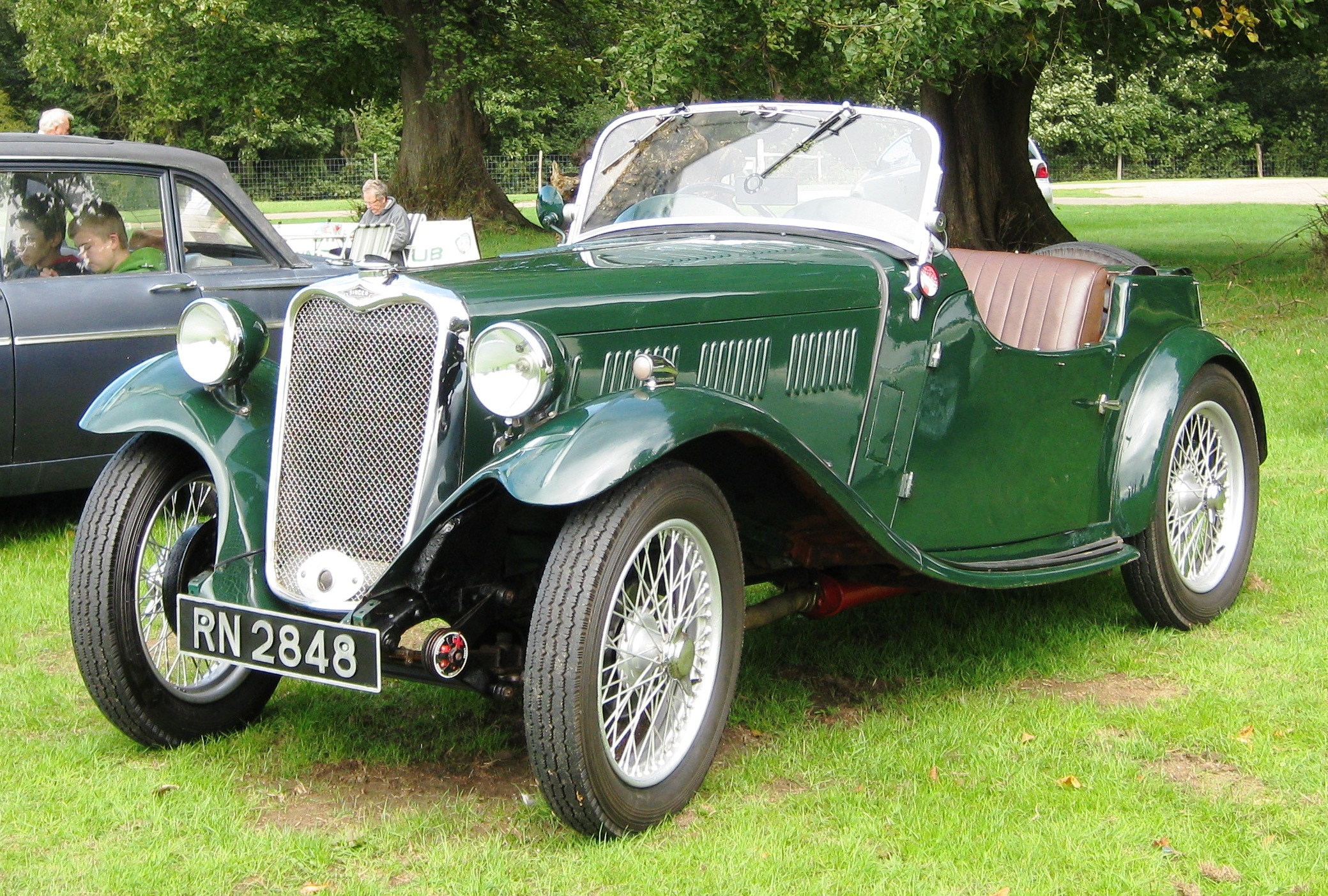 Singer 9 Sports (1933) at Knebworth Classic Car Show